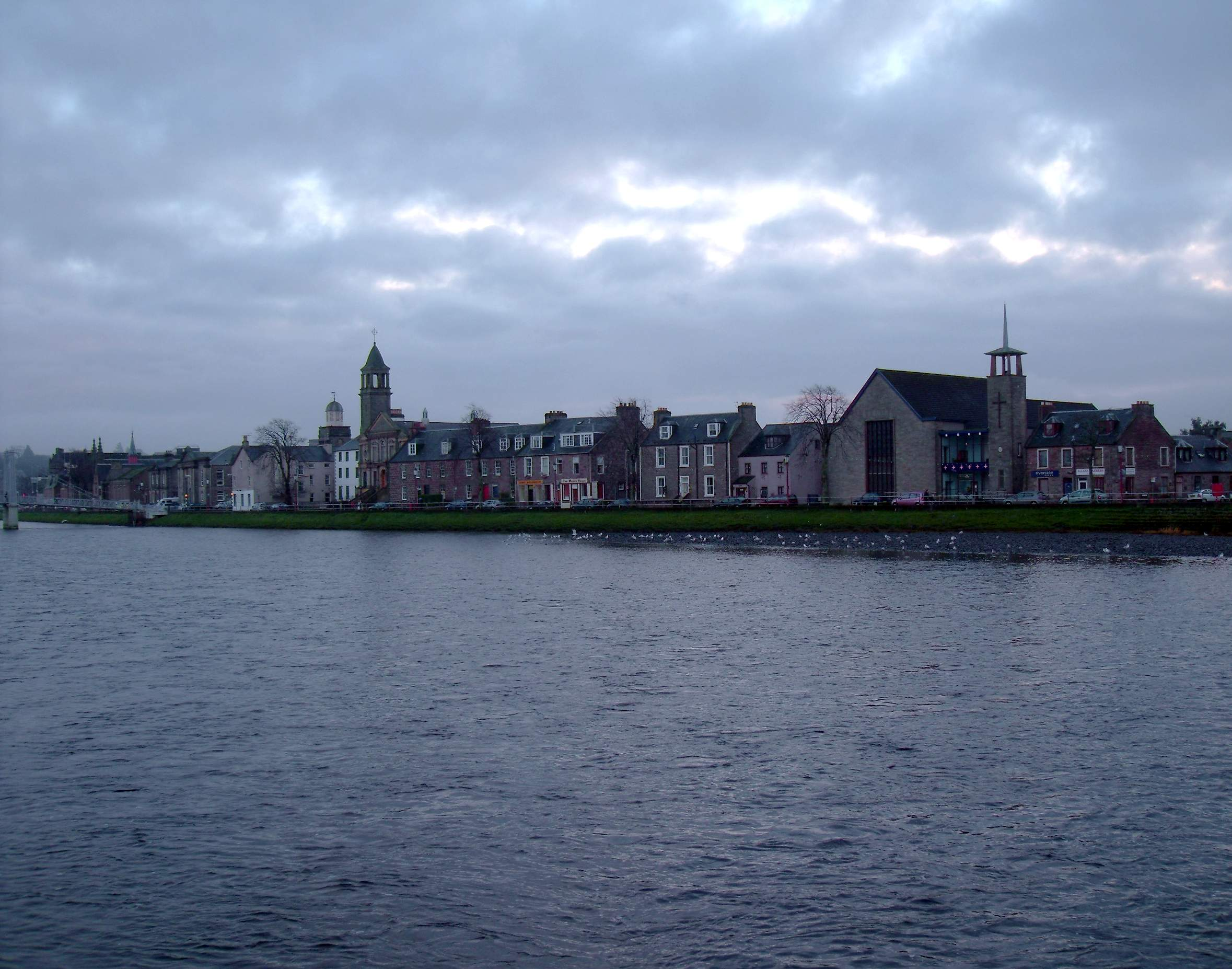 While the sea (Beauly/Moray Firth) has mist lying on it, and another bank of mist drifts down the river, the City Centre remains bright and clear. Looking upstream from Glebe Street on the east bank to Huntly Street where four church steepeles are visible: (Left to Right) St Mary's RC; the former West Parish (now apartments); the rormer Queen Street (now a funeral directors) and the (much the newest) Methodist. Shots taken on Monday 22nd and Wednesday 24th November 2010. On Monday around the middle of the day it was sunny and bright (in the city Centre) and yet mist was rising from the Moray Firth, the River Ness and the Caledonian Canal, as the water temperature seemed to be higher than the air temp. Whereas on Wednesday,during the middle of the day, the sun shone throughout despite dire warnings of the Weather People of the frost and snow to come.